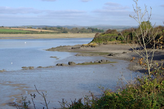 The Camel Estuary Seen from the Camel Trail.